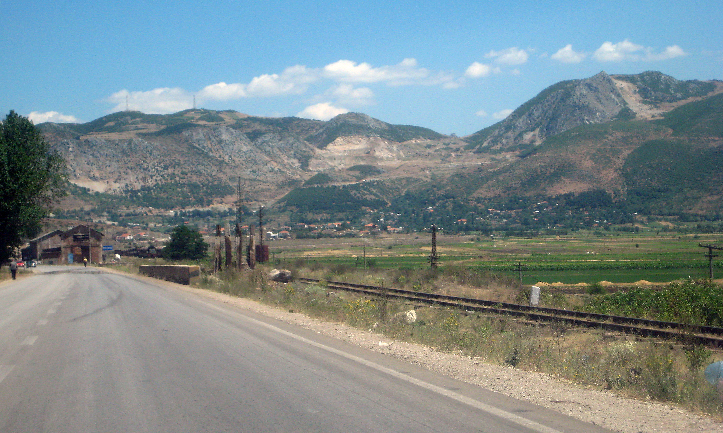 Fusha e Domosdovës at Përrenjas, Eastern Albania